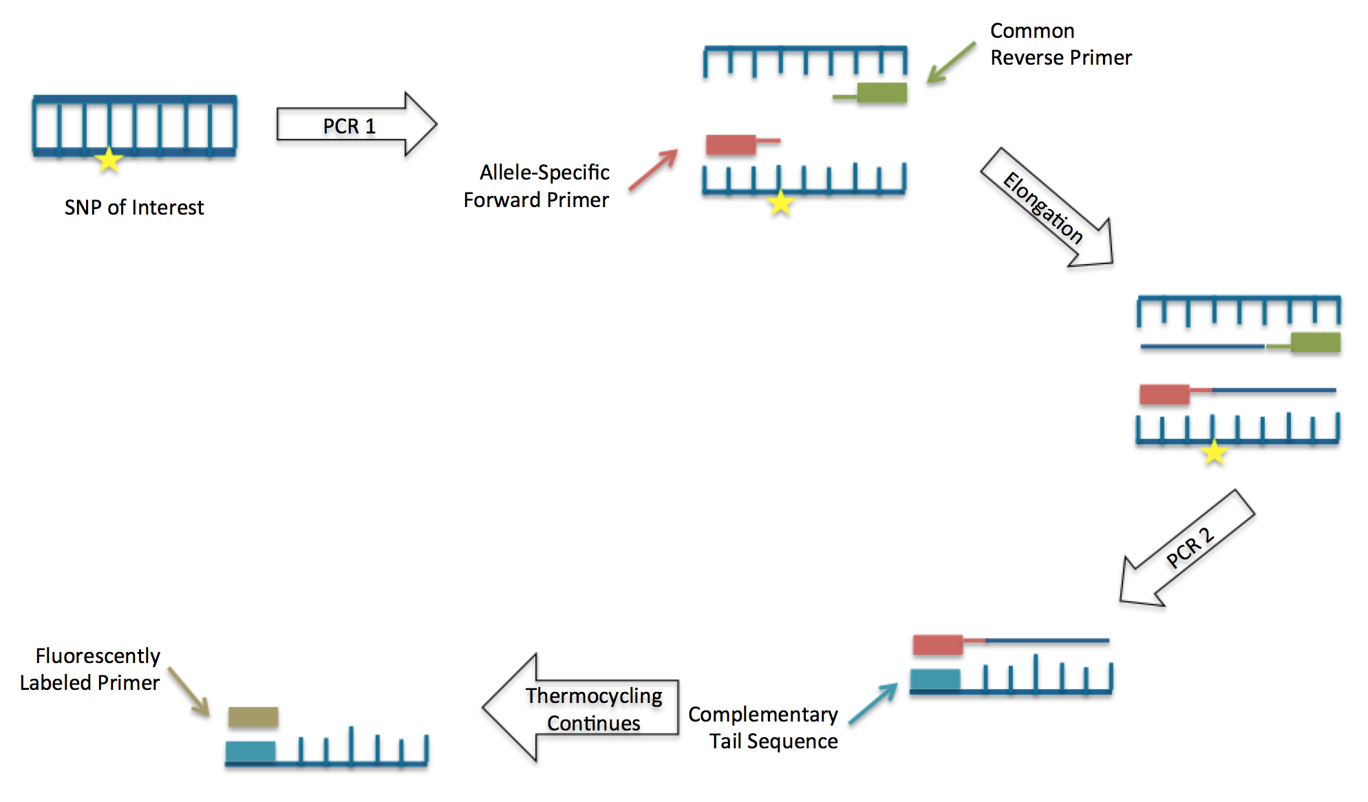 Schematic drawing of the KASP method (Kompetitive Allele Specific PCR)